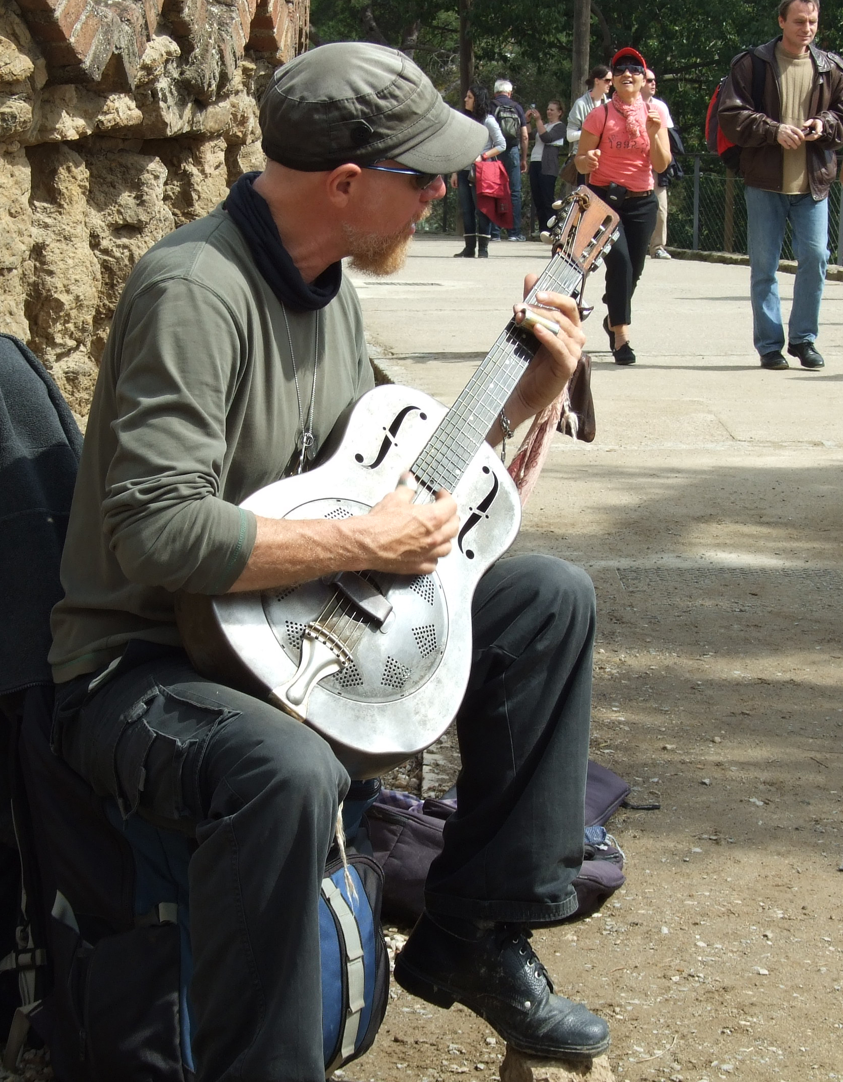 Resonator guitar , playing at park güell, barcelona Resonatorgitarre, gespielt von einem Künstler im Park Güell in Barcelona